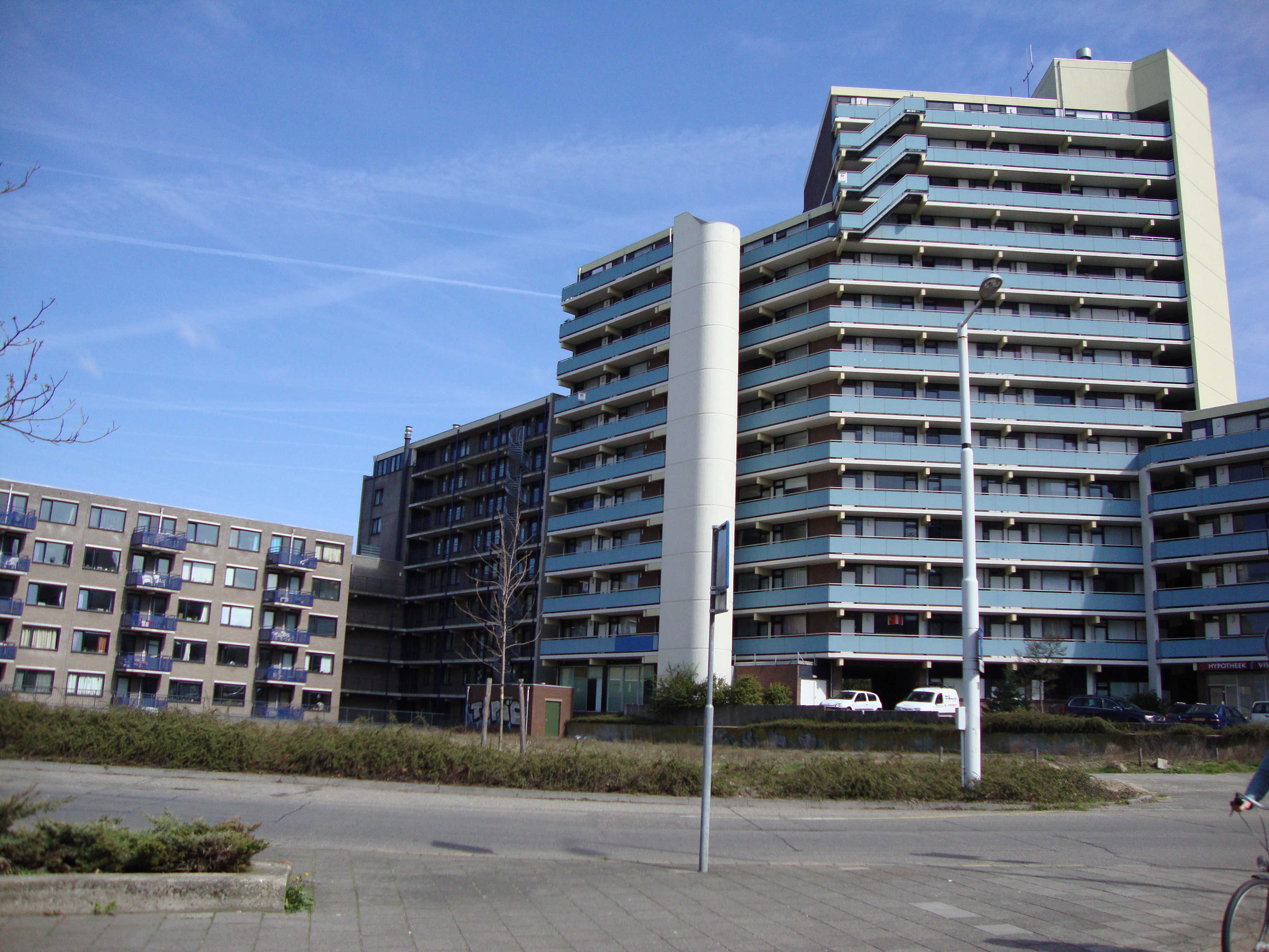 Nijmegen, apartment buildings near the Central station